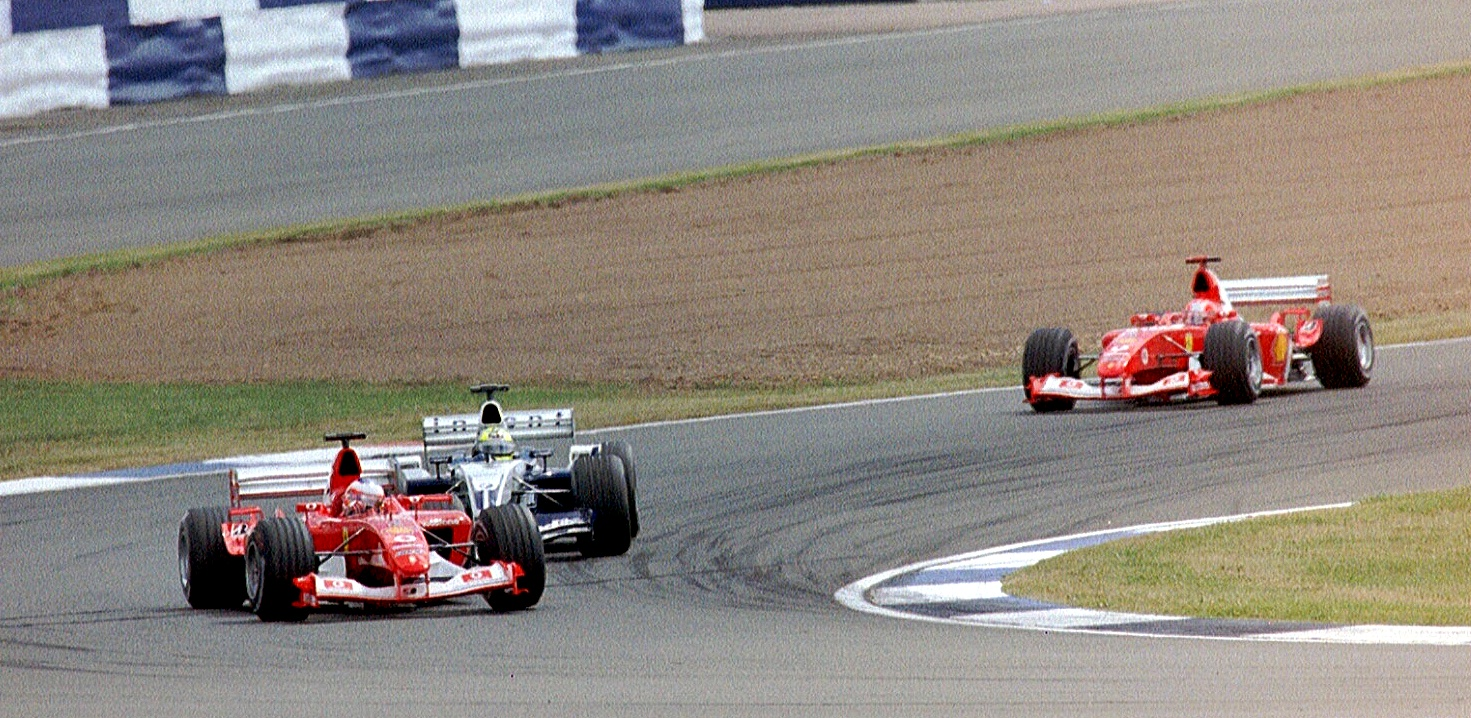 Rubens Barrichello, driving his Marlboro Ferrari, being followed by the Williams BMW of Ralf Schumacher and the other Marlboro Ferrari of Michael Schumacher at the 2003 British Grand Prix.